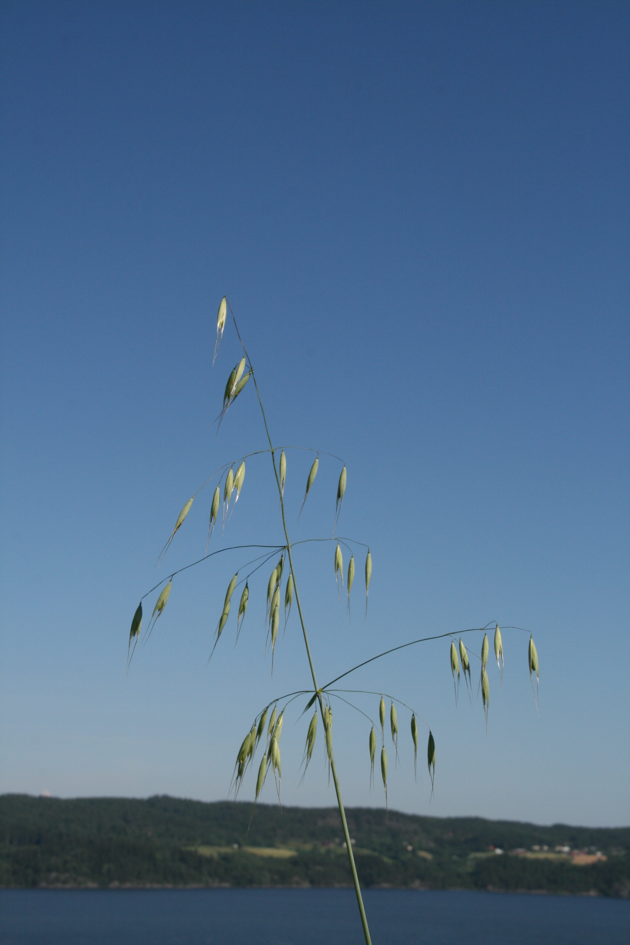 Picture of Avena fatua